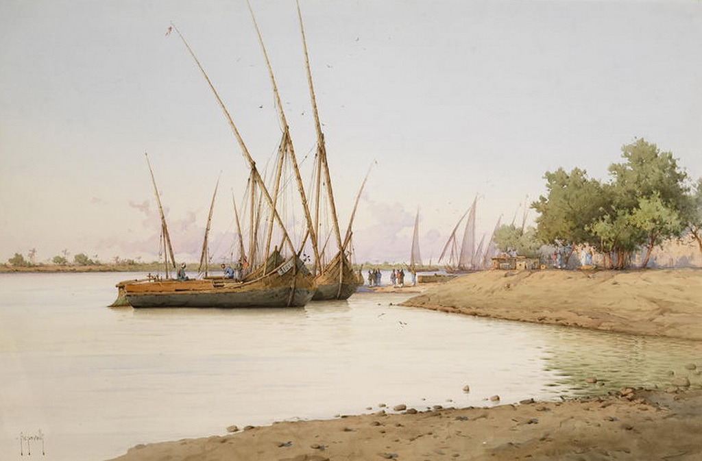 Felouks on the Nile near Cairo